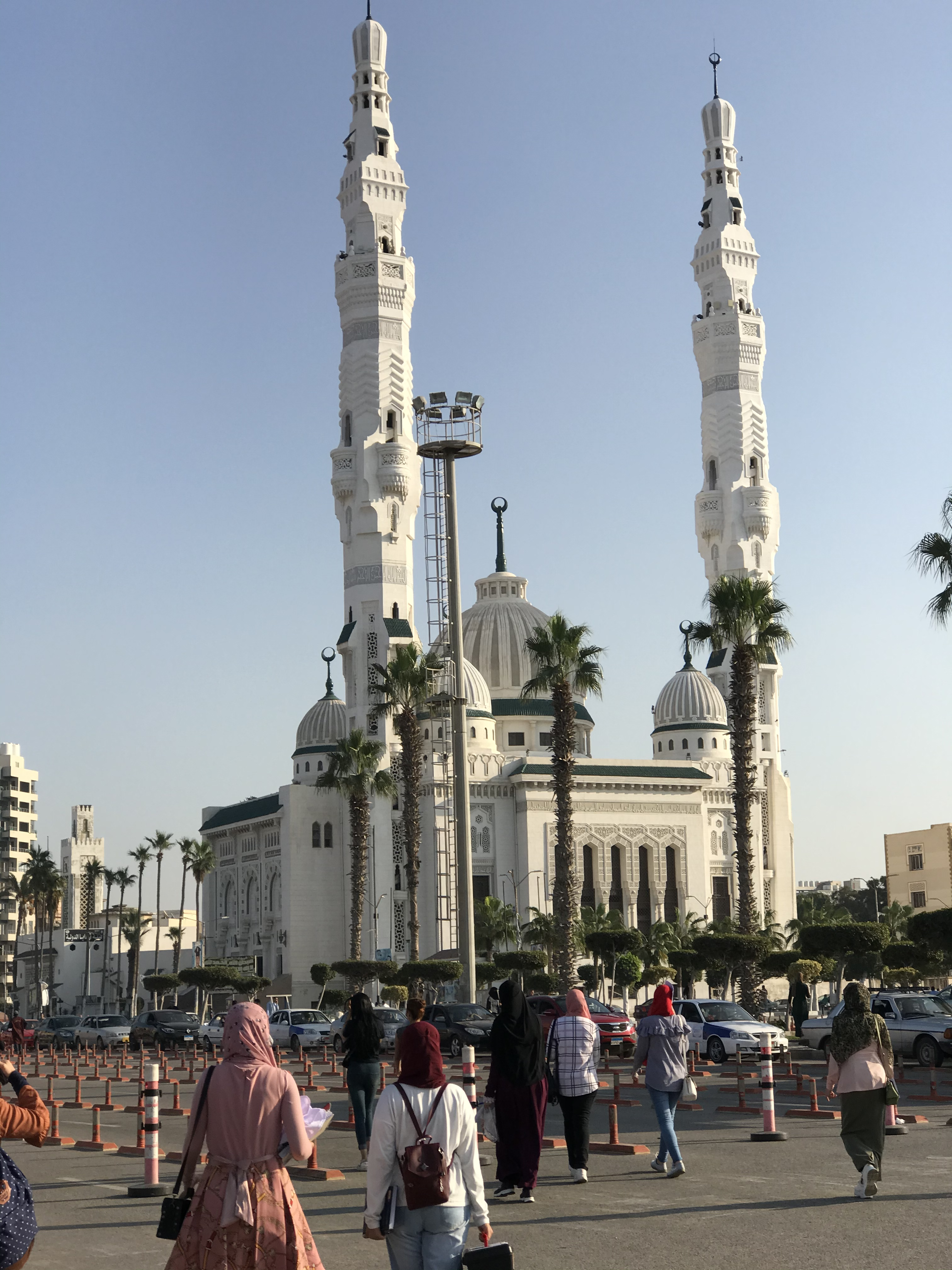 This is an image with the theme "Africa on the Move or Transport" from: Egypt